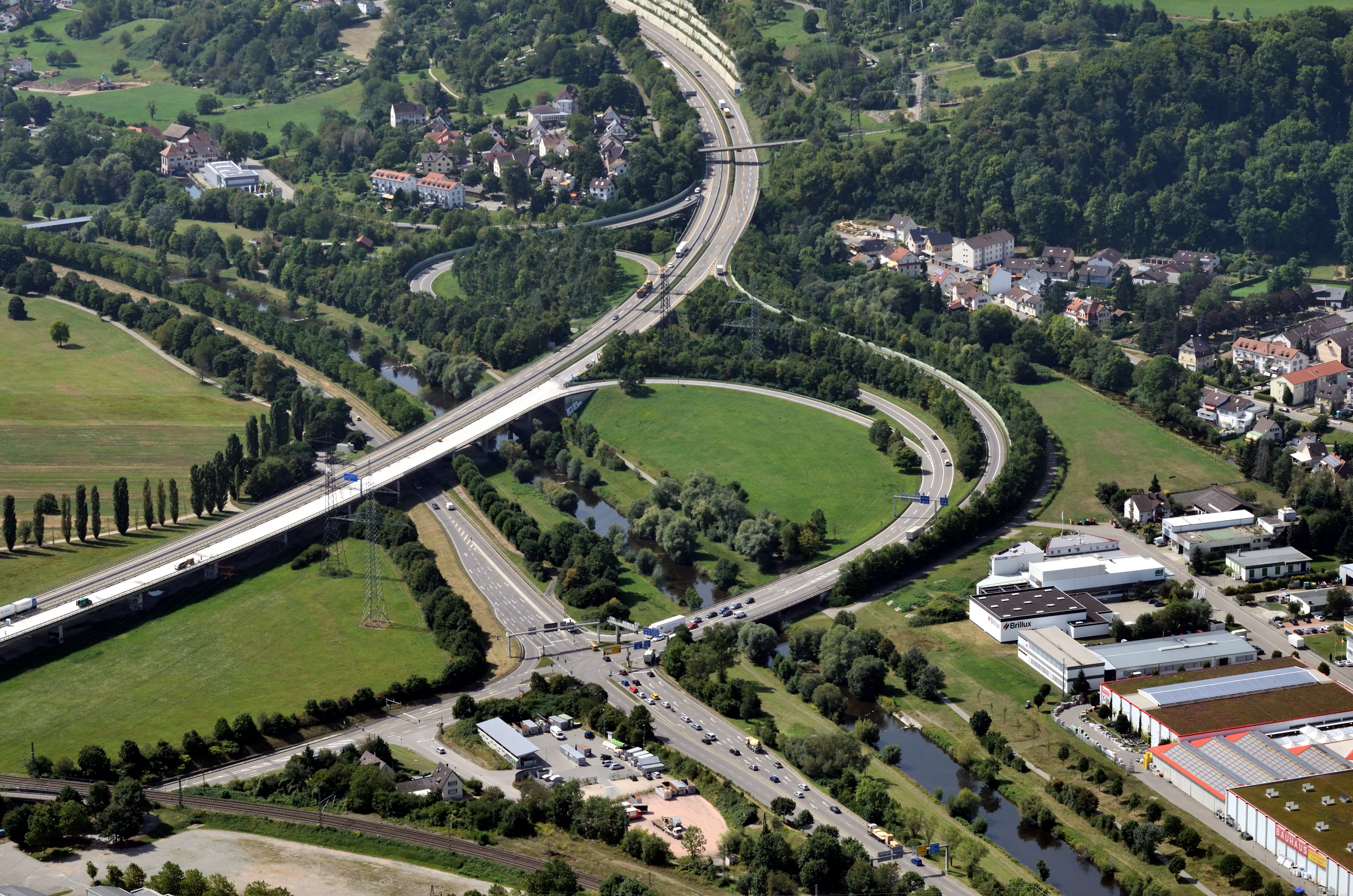 Lörrach: aerial view of motorway A98, exit Lörrach-Mitte